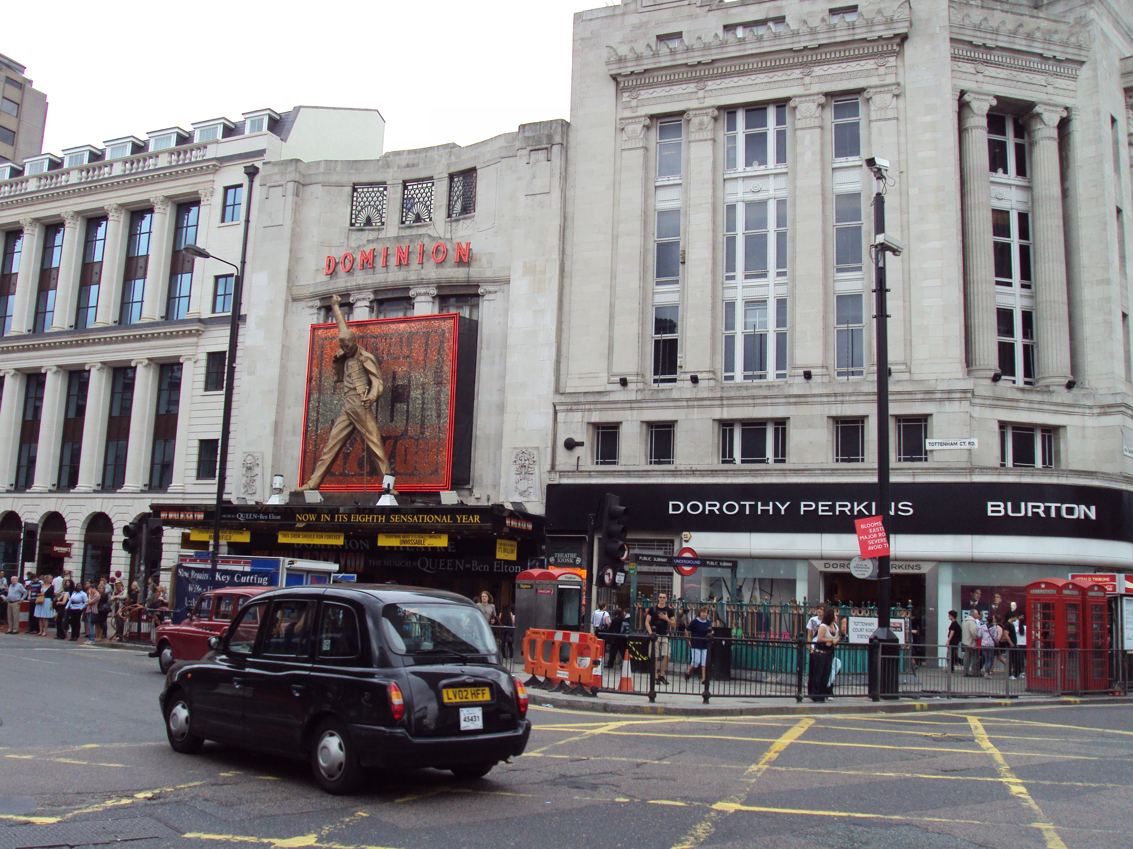 The Dominion Theatre on Tottenham Court Road, London, England.